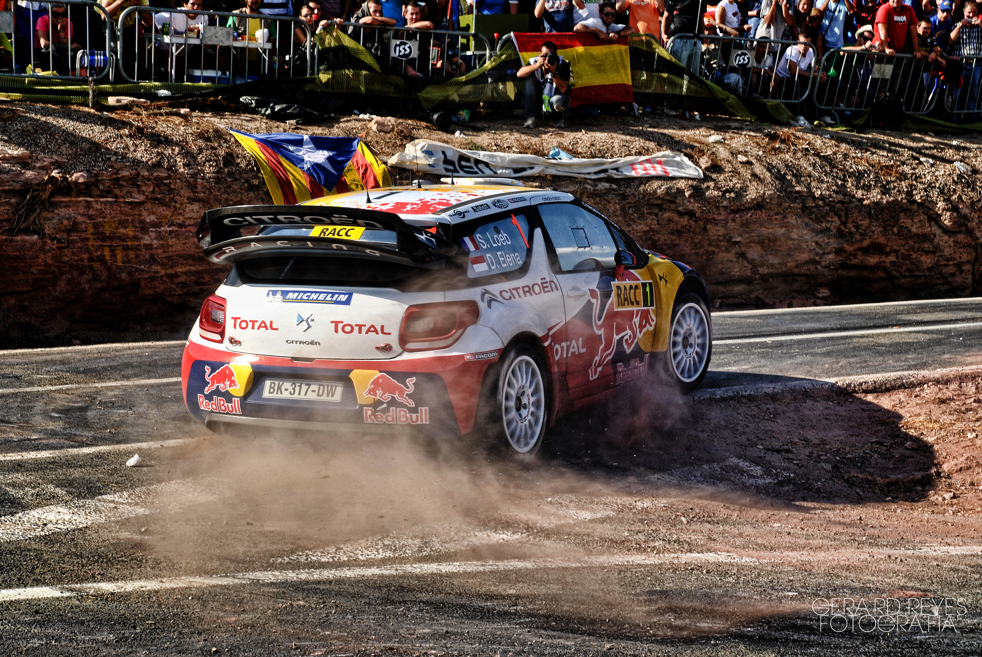 Sébastien Loeb in 2011 Rally Catalunya